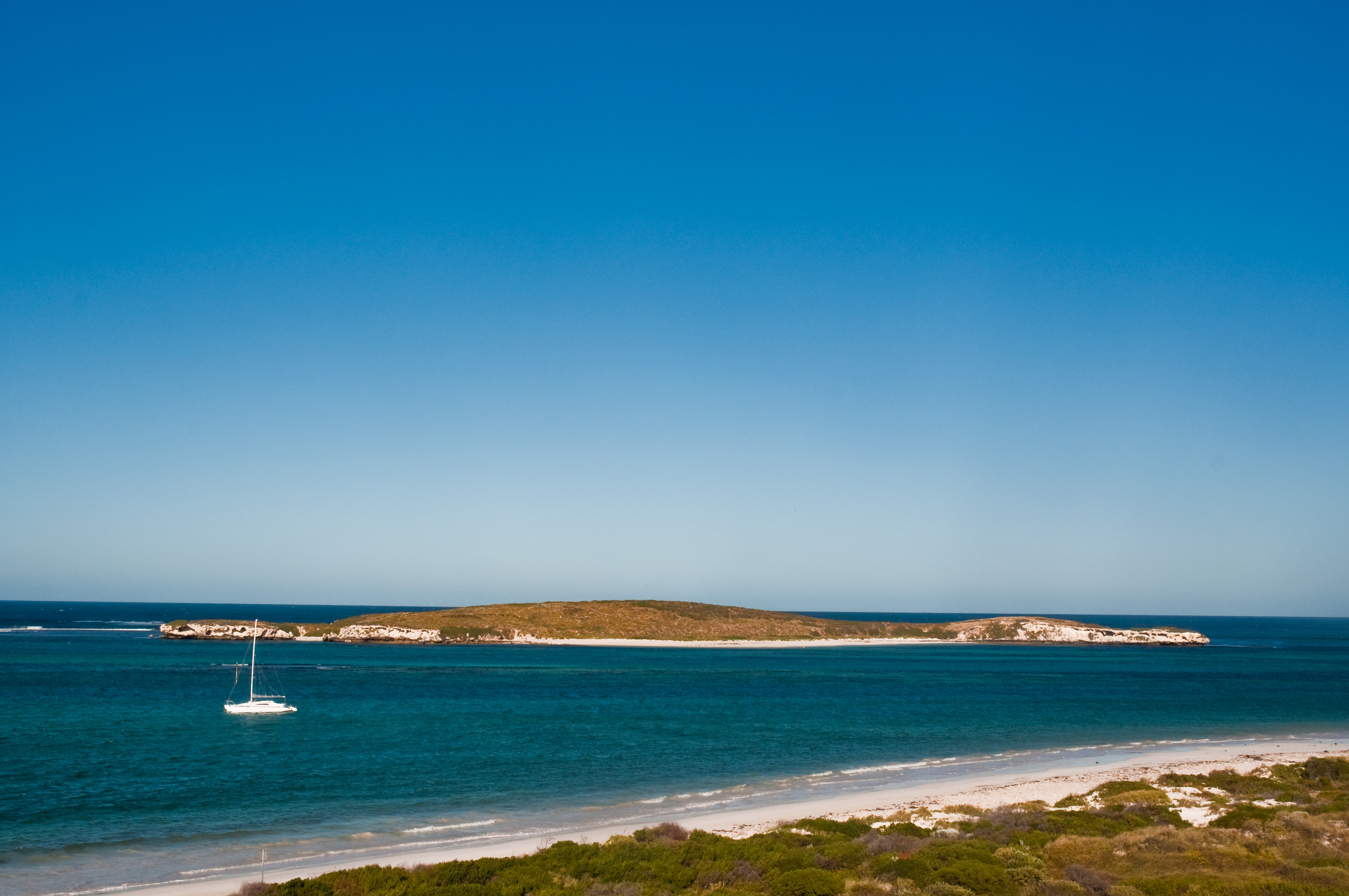 Gone Driveabout 2, Lancelin, Western Australia, 24 Oct. 2010